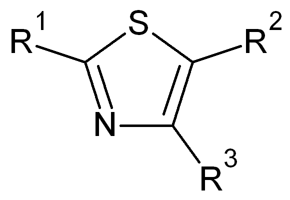 Thiazole: generalstructure